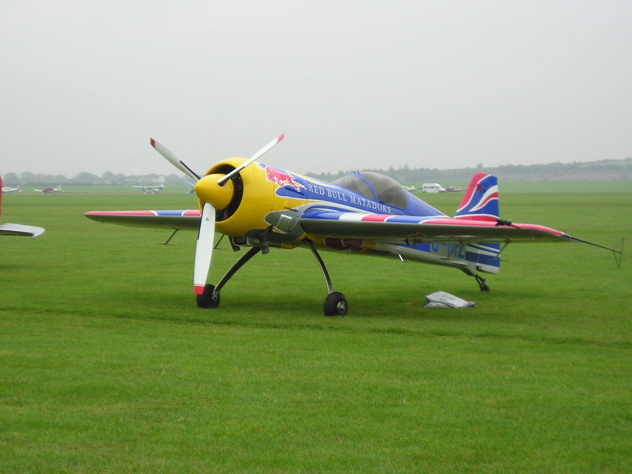 Red Bull Matadors Su-26 at the Duxford Airshow.